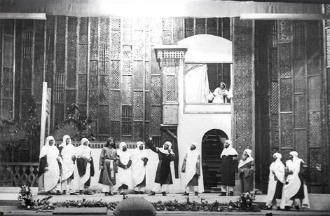 Scene from "Leyli and Majnun" opera